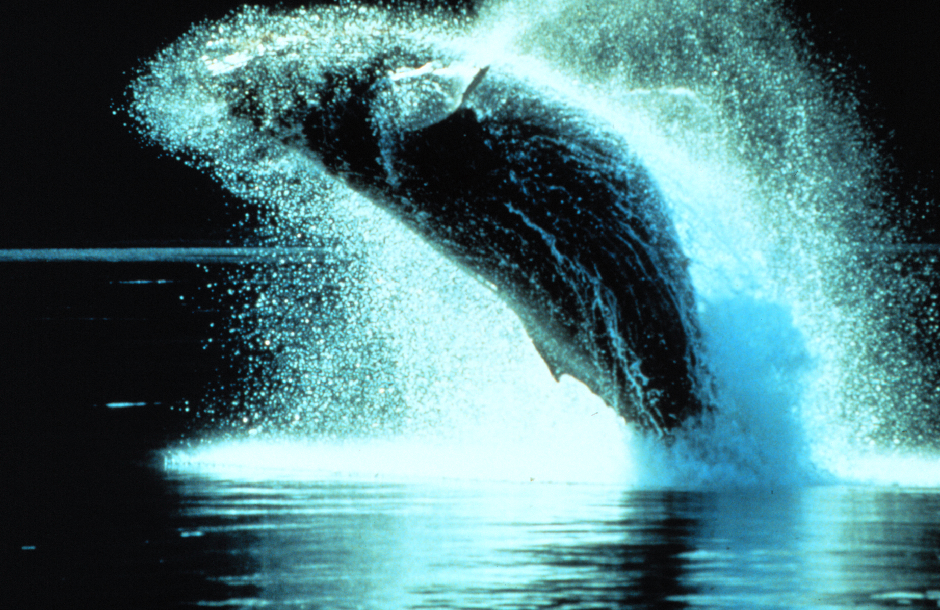 Humpback whale Megaptera novaeangliae at boreal to tropical Atlantic and Pacific